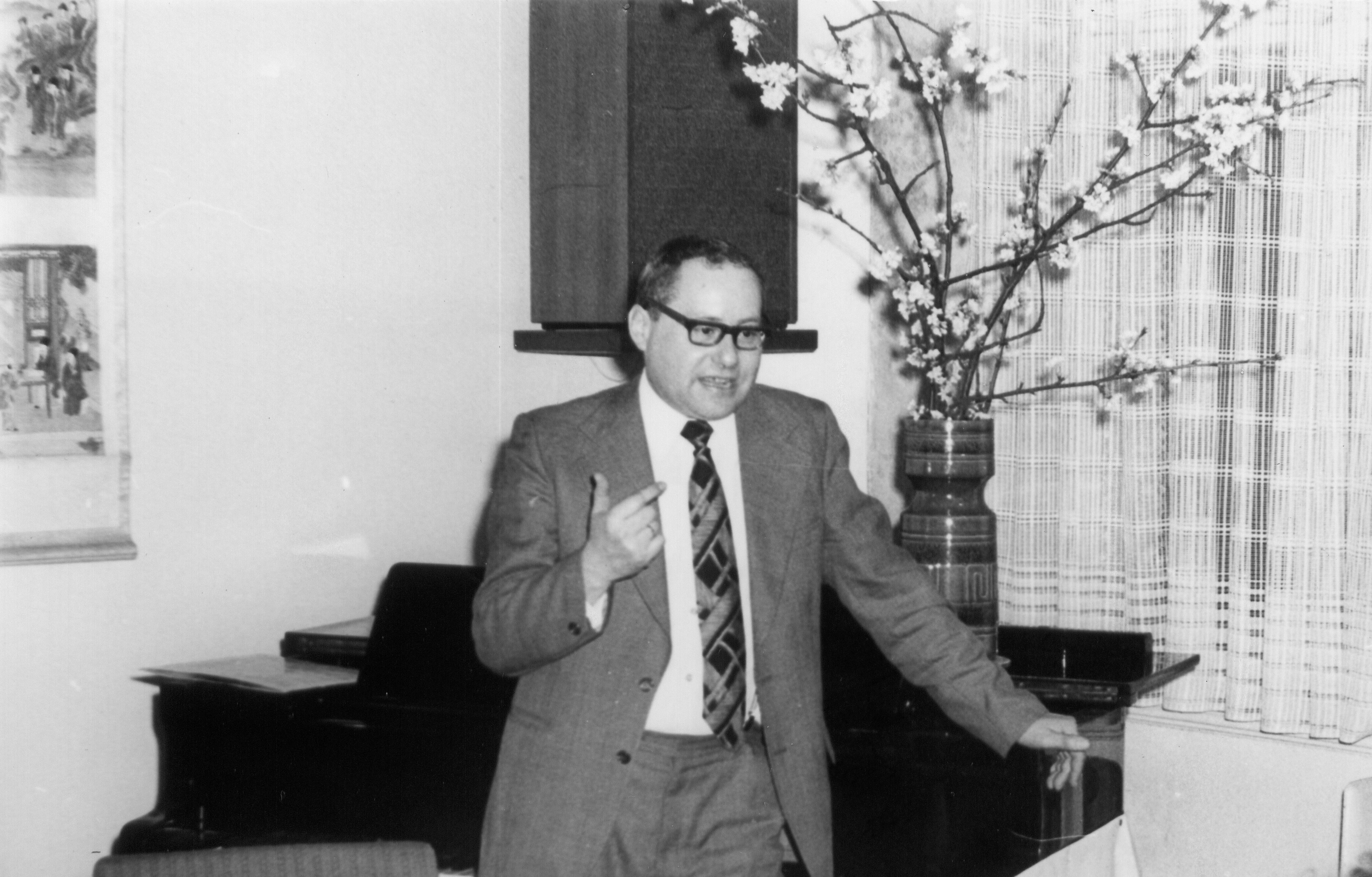 Gerd Schönfelder 1976 in Dresden